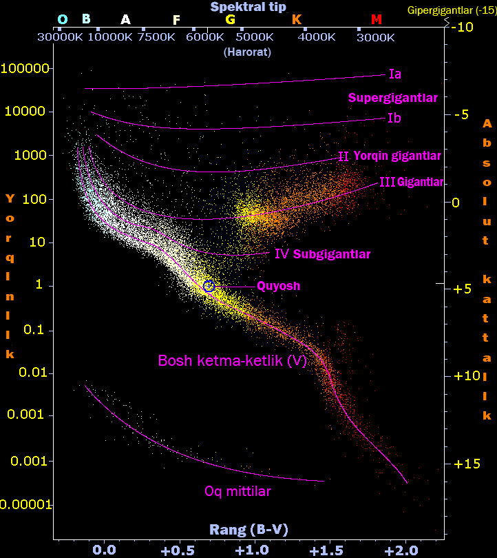 Hertzsprung-Russell diagram. A plot of luminosity (absolute magnitude) against the colour of the stars ranging from the high-temperature blue-white stars on the left side of the diagram to the low temperature red stars on the right side.Oʻzbekcha/ўзбекча: Hertzsprung-Russell diagrammasi. Yorqinlik (absolut kattalik) va yuqori haroratli koʻk-oq yulduzlardan (diagramma chapida) past haroratli qizil yulduzlargacha (diagramma oʻngida) yulduzlar ranglari bilan solishtirilishi.